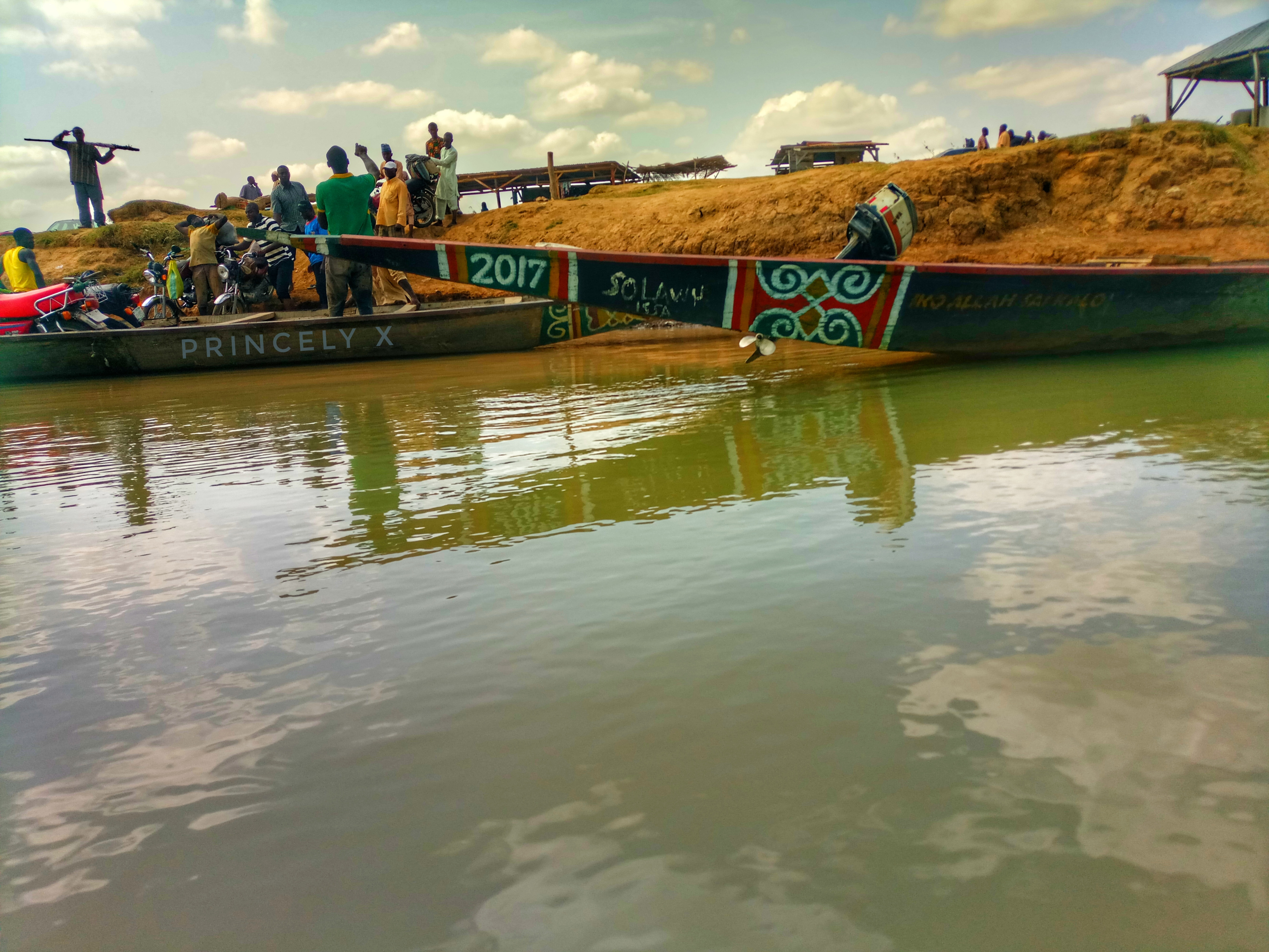 This is the bank of the Patigi River, in Patigi Local Government Area, Kwara state, Nigeria. The river is home to many fishing activities, and hosts the annual Patigi regatta fishing and cultural festival.